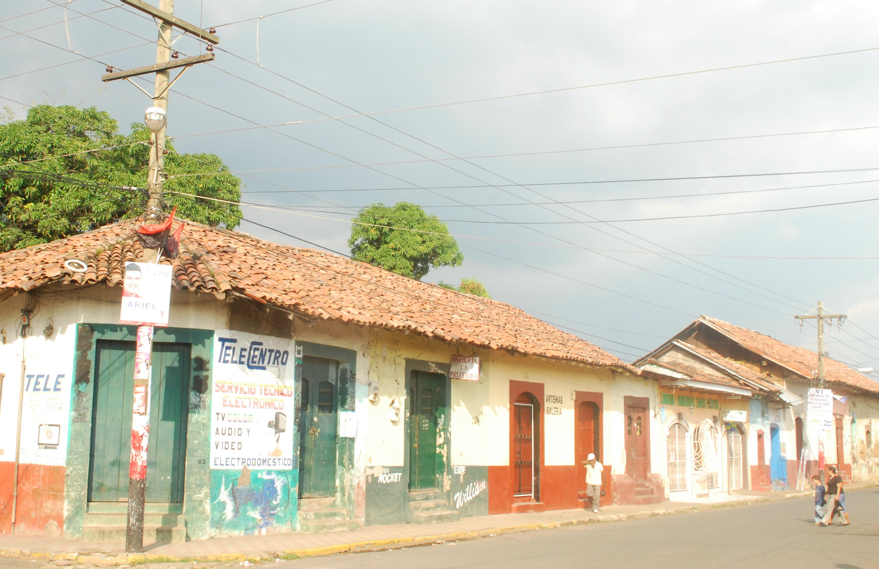 Old houses in León, Nicaragua. Norsk (bokmål): Gamle hus i León, Nicaragua